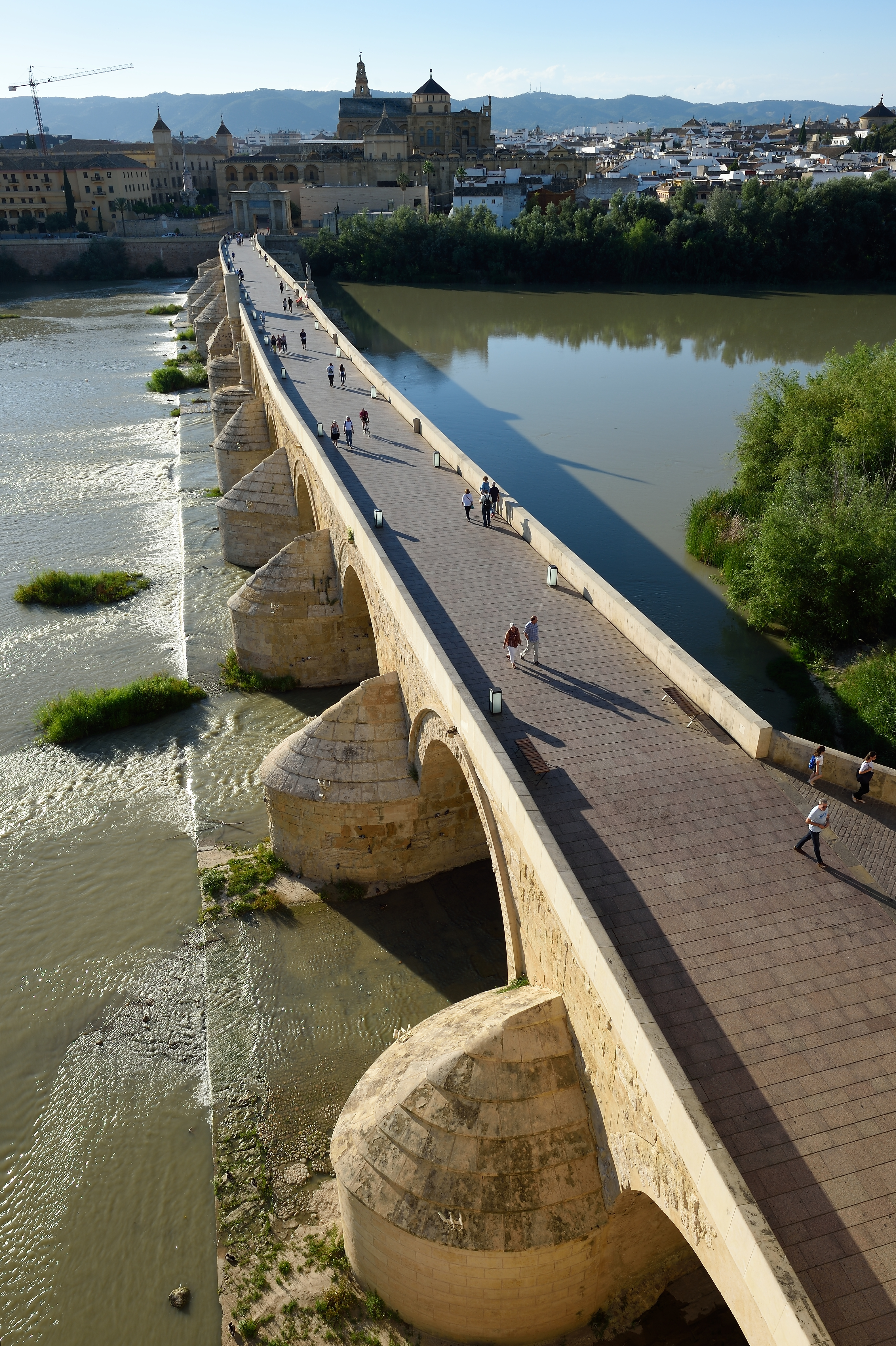 Puente Romano (Roman Bridge) of Córdoba, Spain, as photographed from the roof of Torre de la Calahorra.